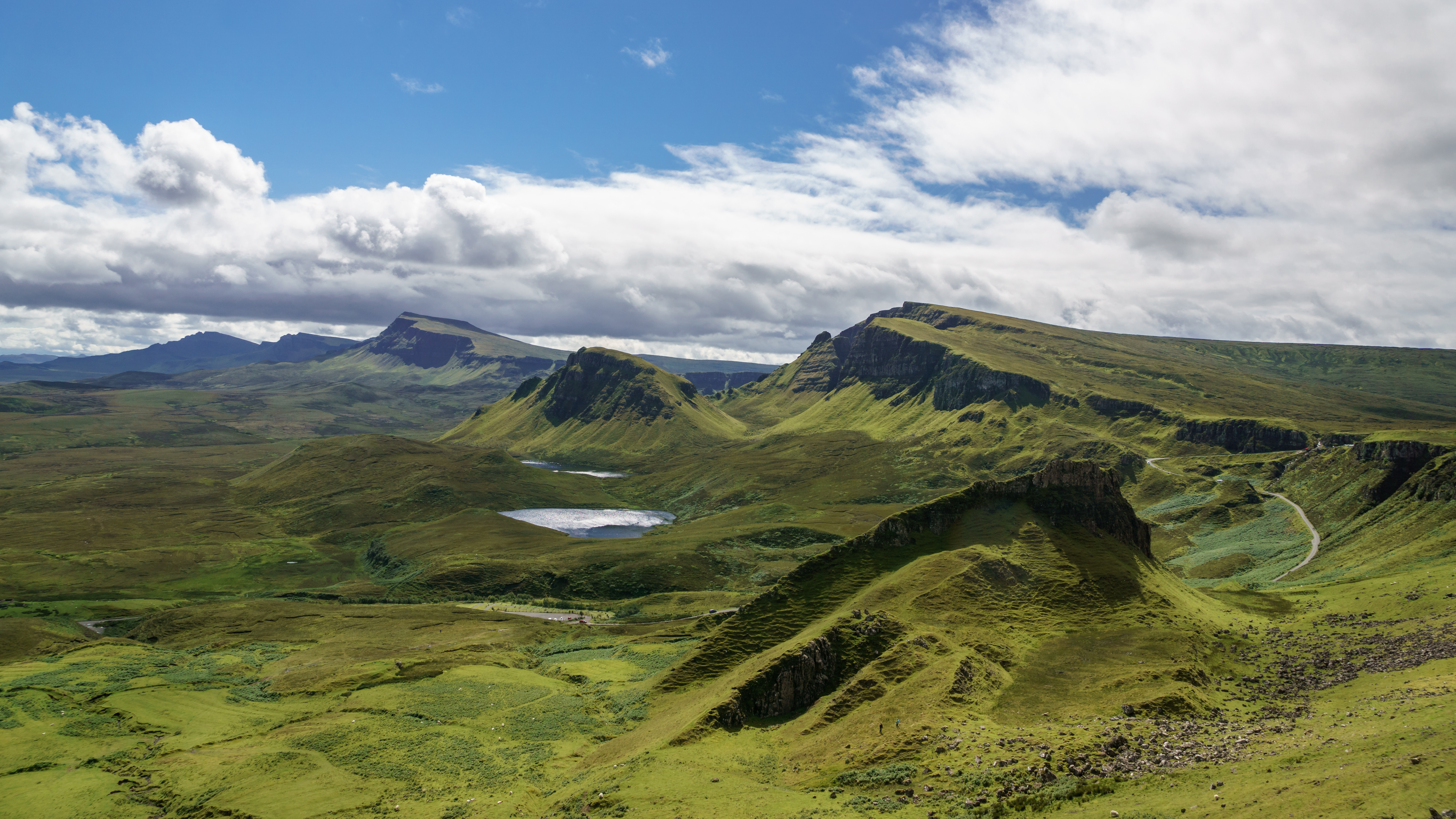 Looking South over the Quiraing on the Isle of Skye.